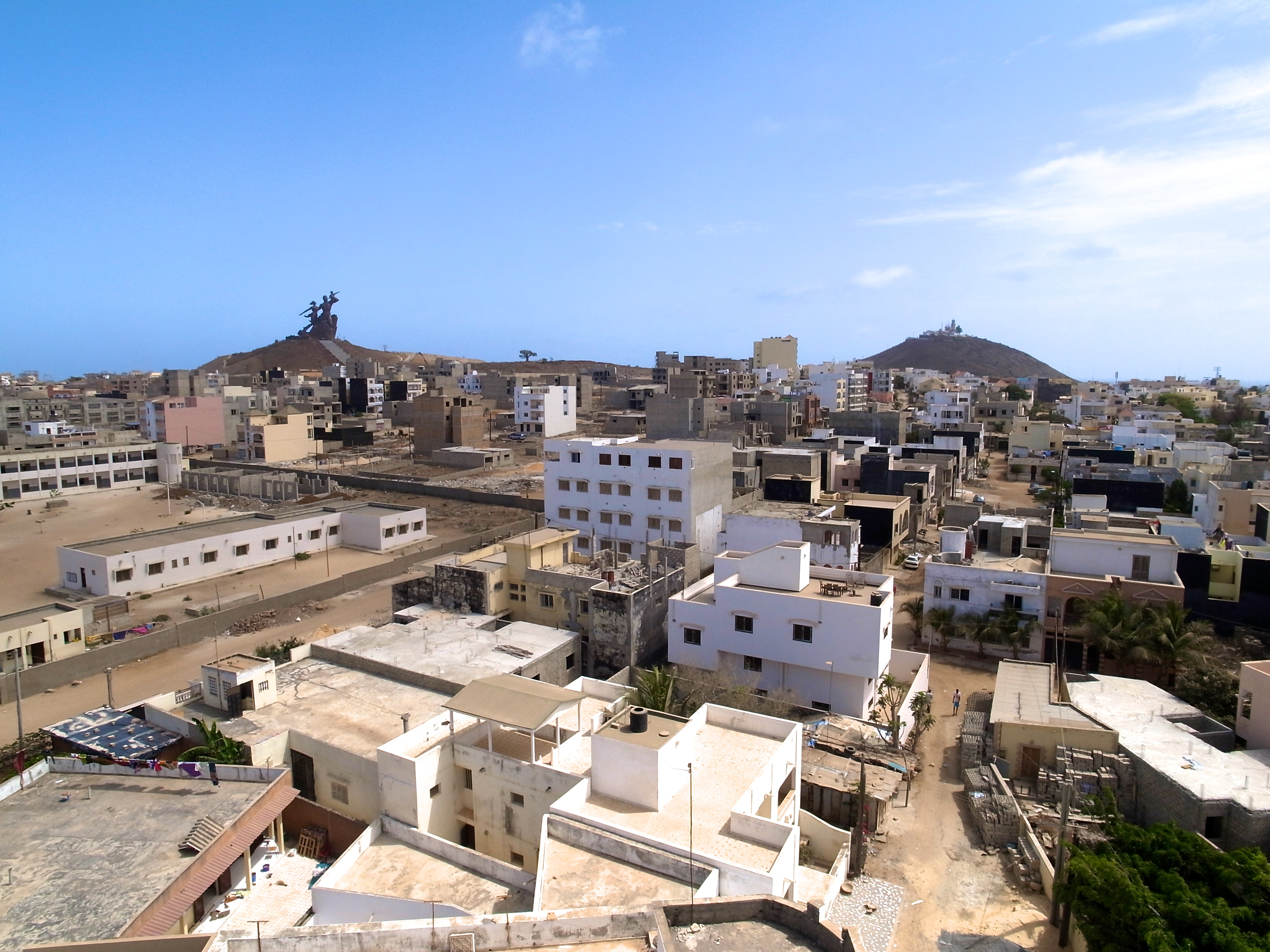 Image was captured by a camera suspended by a kite line. Kite Aerial Photography (KAP) 7' Rokkaku